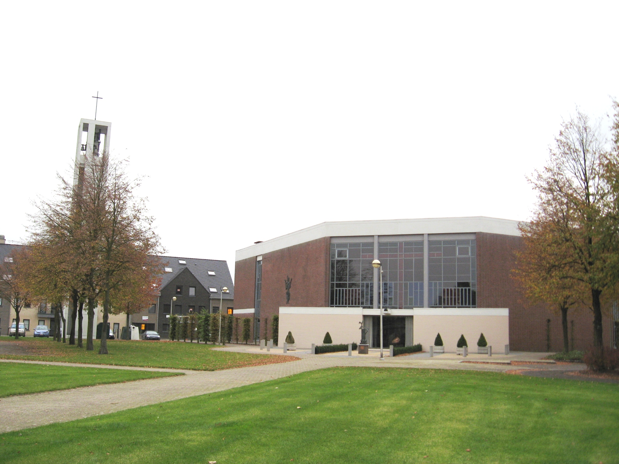 Church of Saint Cornelius in Overpelt (Lindelhoeven), Limburg, Belgium